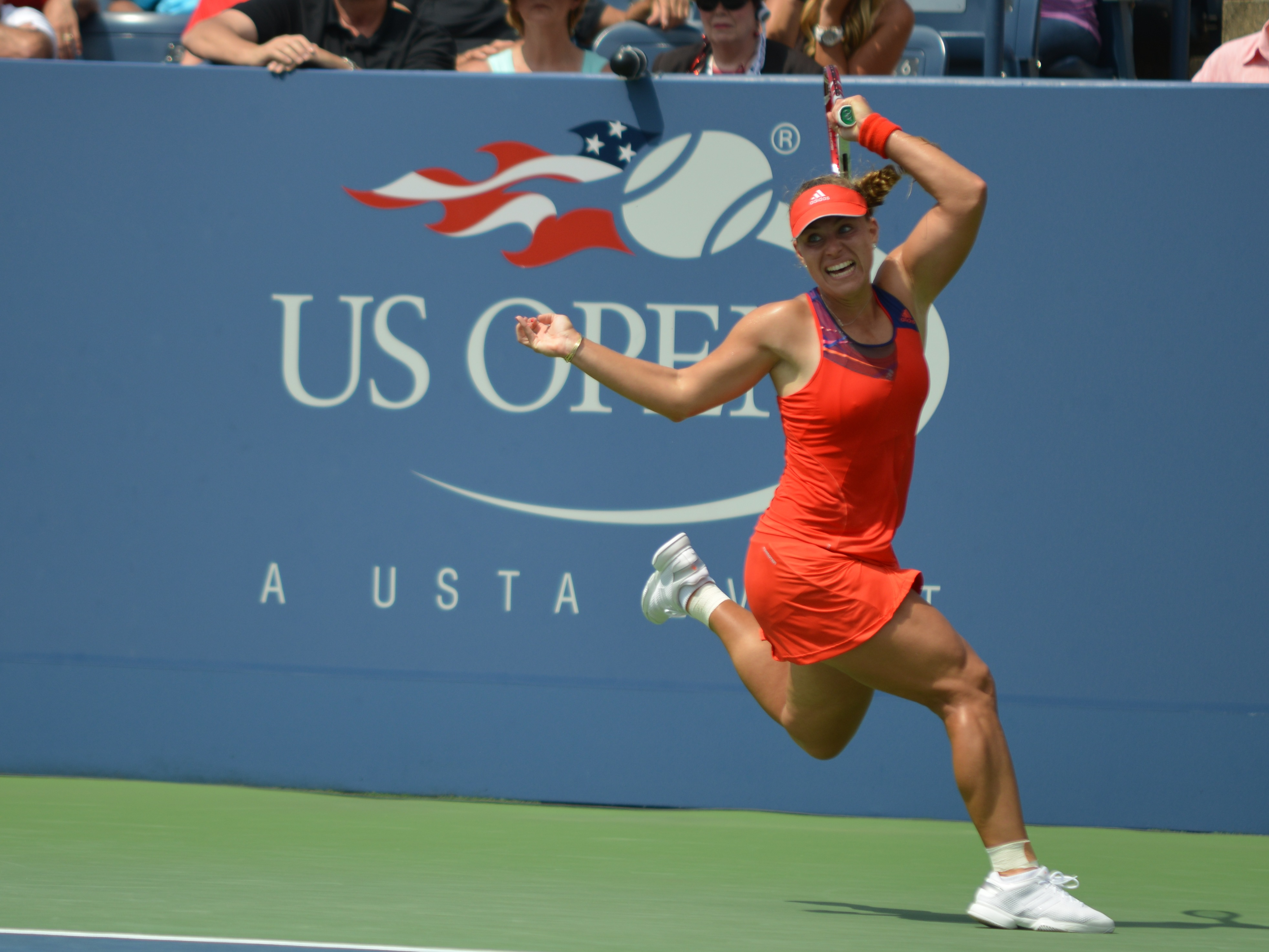 Angelique Kerber at the 2013 US Open